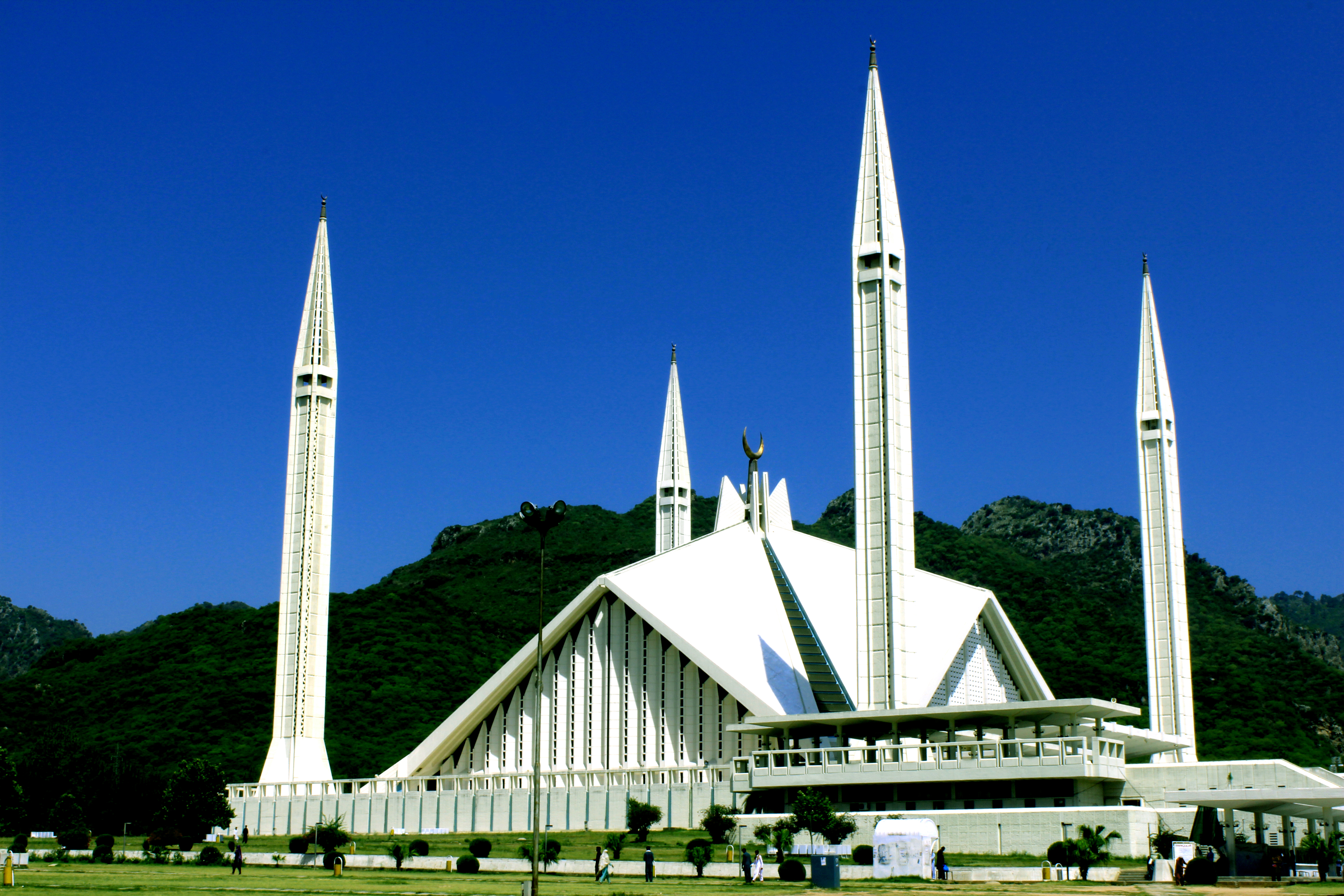 Faisal Mosque This is a photo of a monument in Pakistan identified as the ICT-5